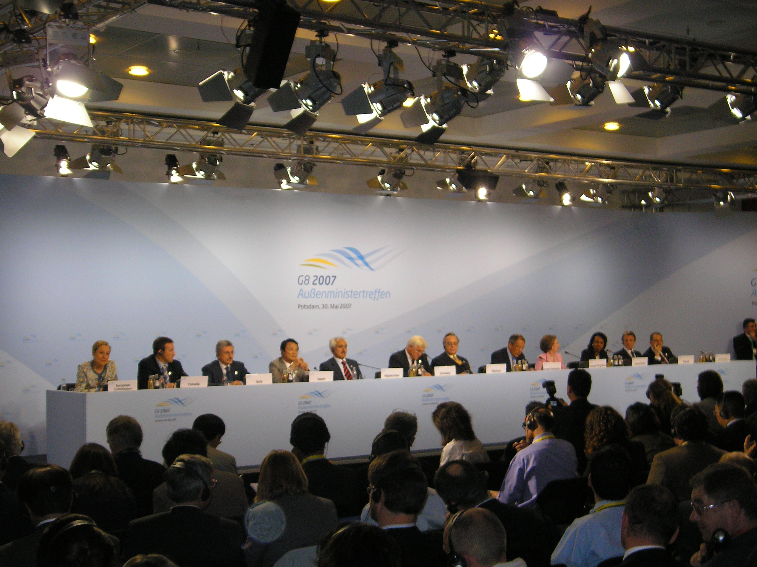 G8 foreign ministers press conference at the Hotel Dorint in Potsdam.